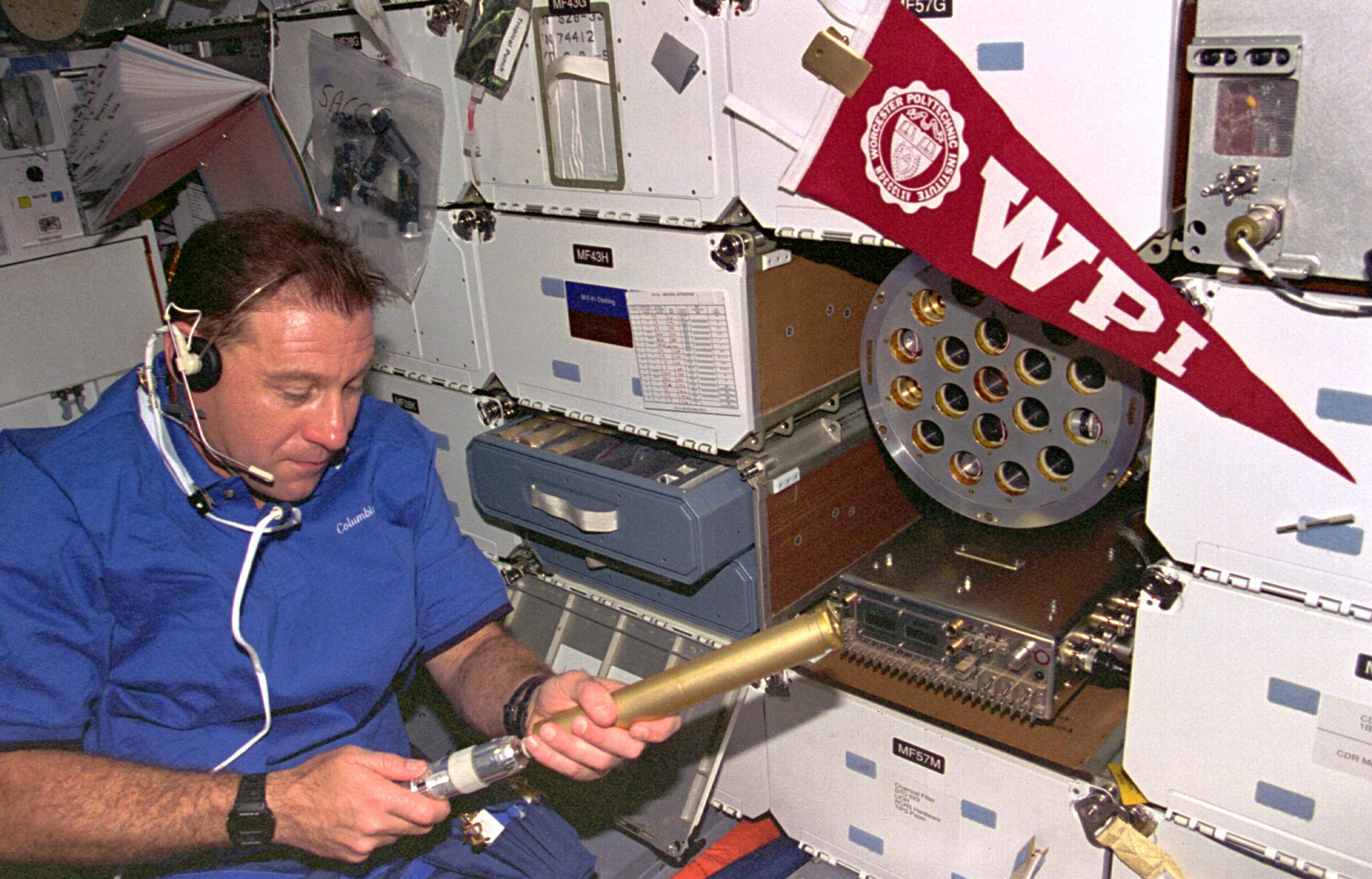 NASA Photo #9802910: Onboard the Space Shuttle Columbia, STS-73 mission, in 1995, crewmember Dr. Albert Sacco Jr. loads crystals into the Zeolite Crystal Growth experiment. Sacco is director of the Center for Advanced Microgravity Materials Processing at Northeastern University in Boston. This NASA Commercial Space Center works with companies interested in using space to grow zeolite crystals. If scientists can learn more about the structures of zeolites, they may be able to improve the use of zeolites in petroleum processing and reduce the cost of fuel. This research is part of the Space Product Development Program managed at NASA’s Marshall Space Flight Center in Huntsville, Ala.